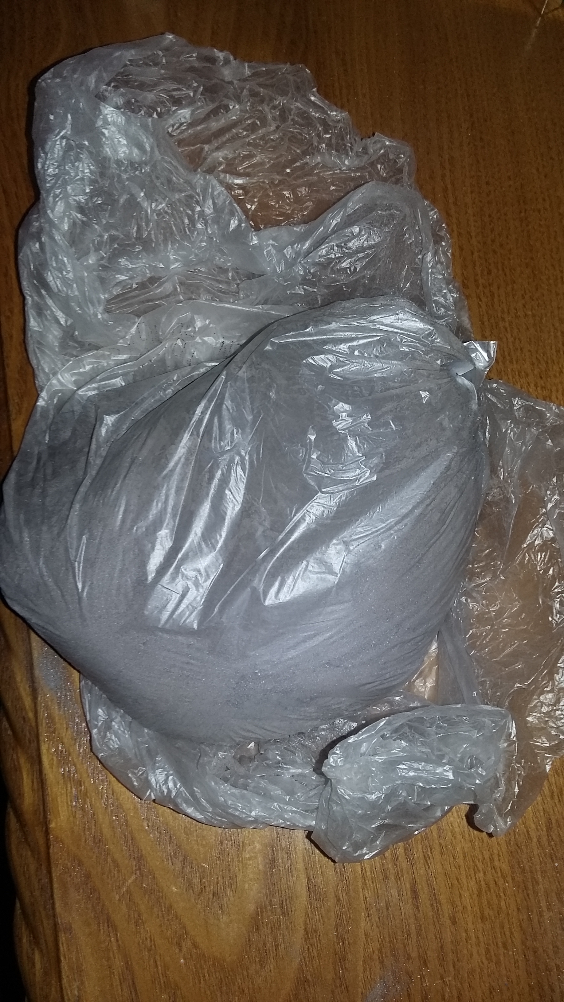 Human cremains, still in plastic bag that crematorium placed them in